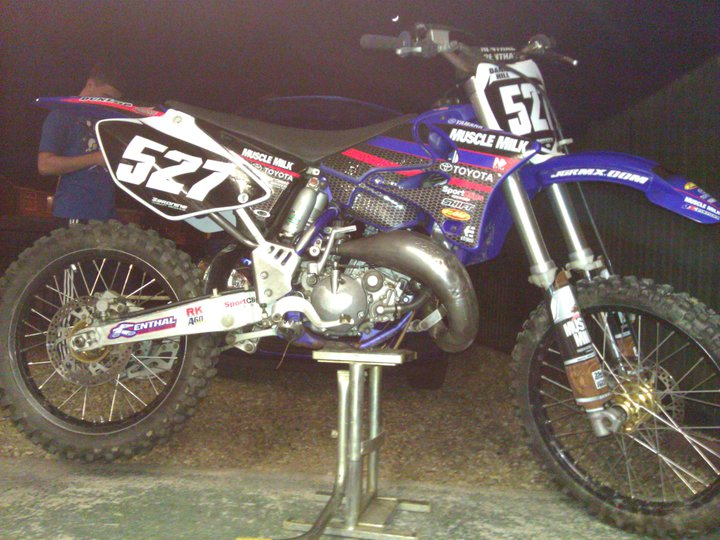 this is my example of my Yamaha YZ 125